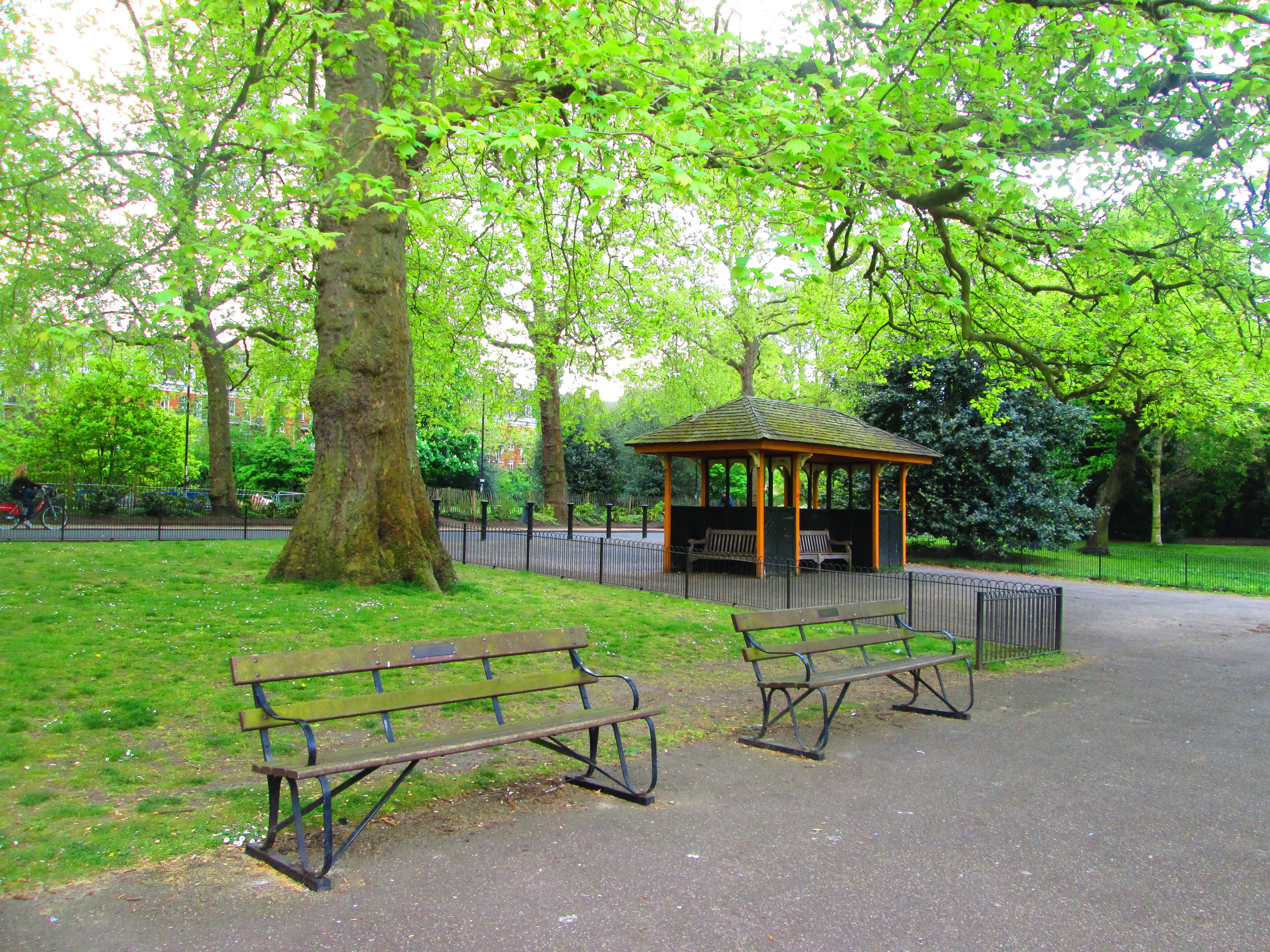 Battersea Park